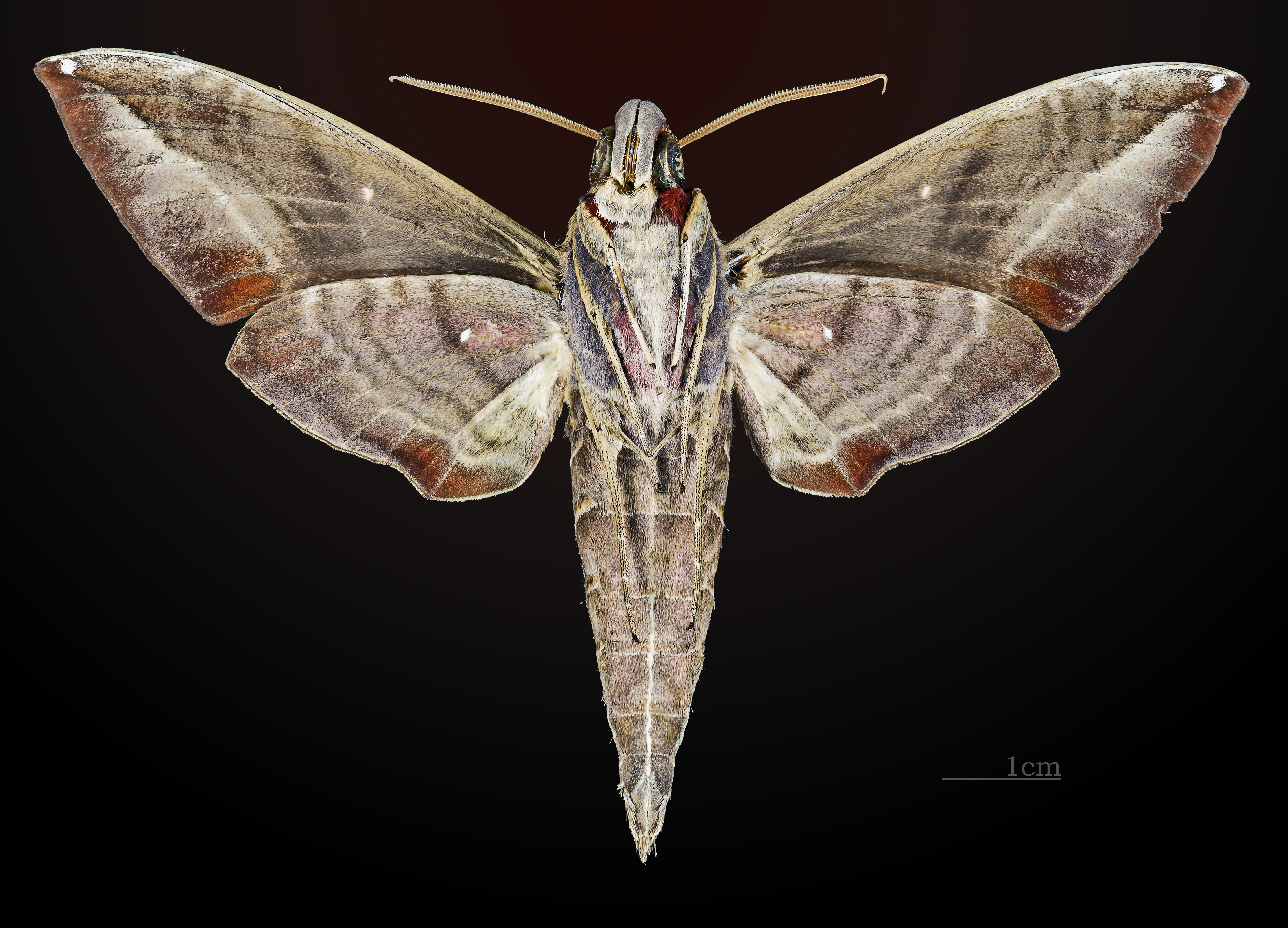 Daphnis moorei - △ Ventral side Collection of the Mathematician Laurent Schwartz